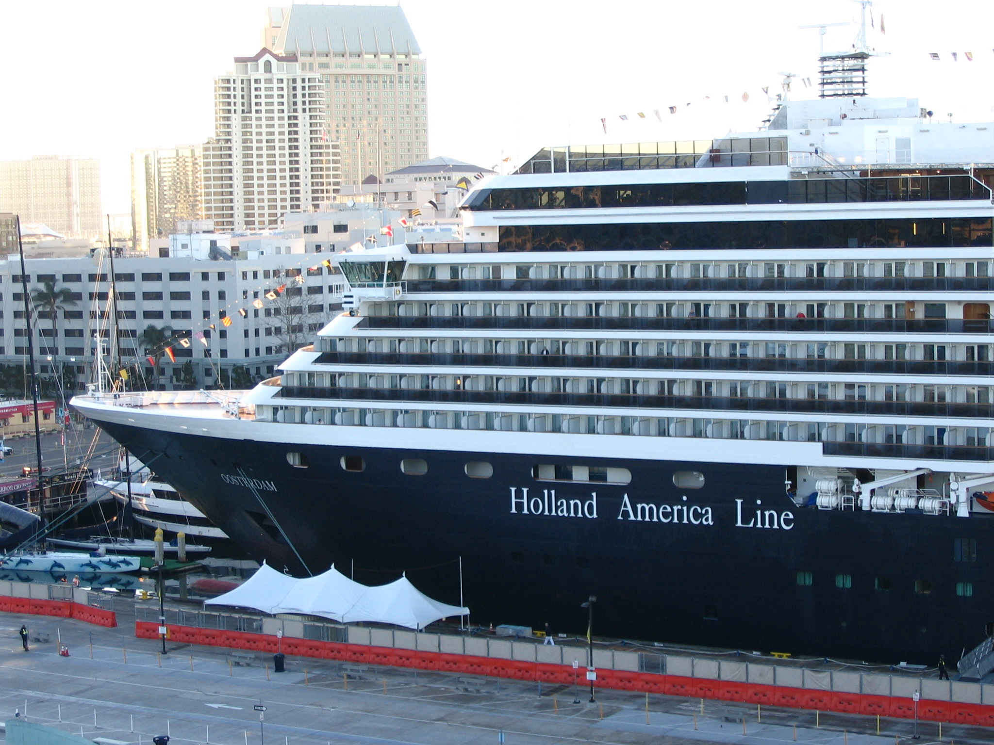 MS Oosterdam seen before disembarkation in the port of San Diego, California, USA. The Oosterdam flies the Dutch flag and bears IMO number 9221281.